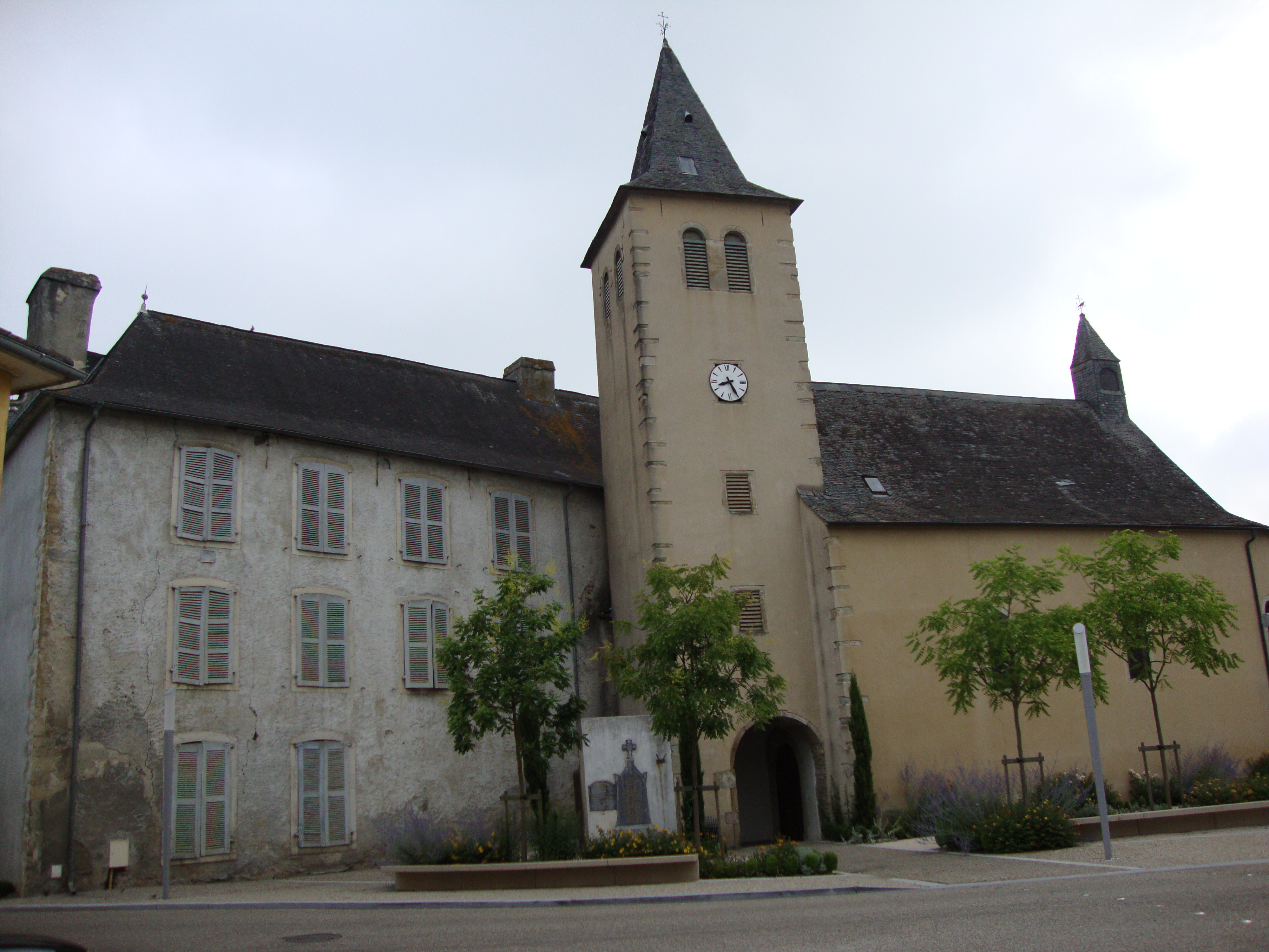 Orin (Pyr-Atl, Fr) castle - church.